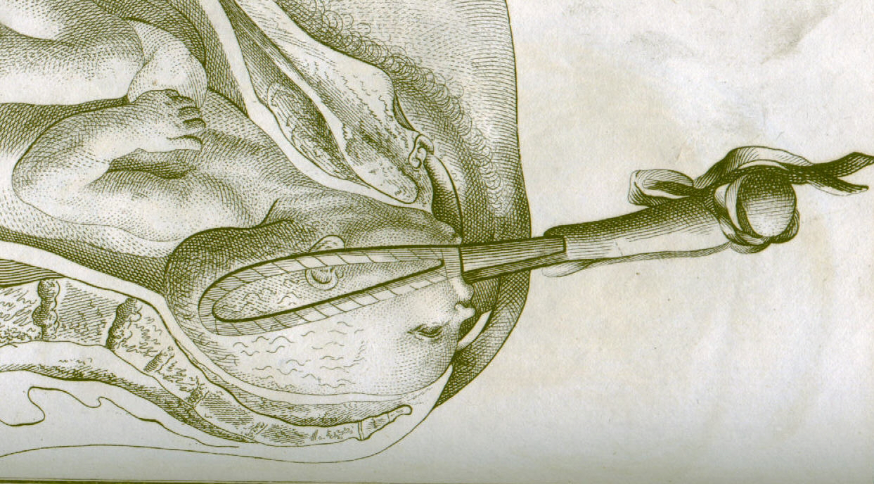 Forceps de Smellie (premier type, sans courbure pelvienne,avant 1750)